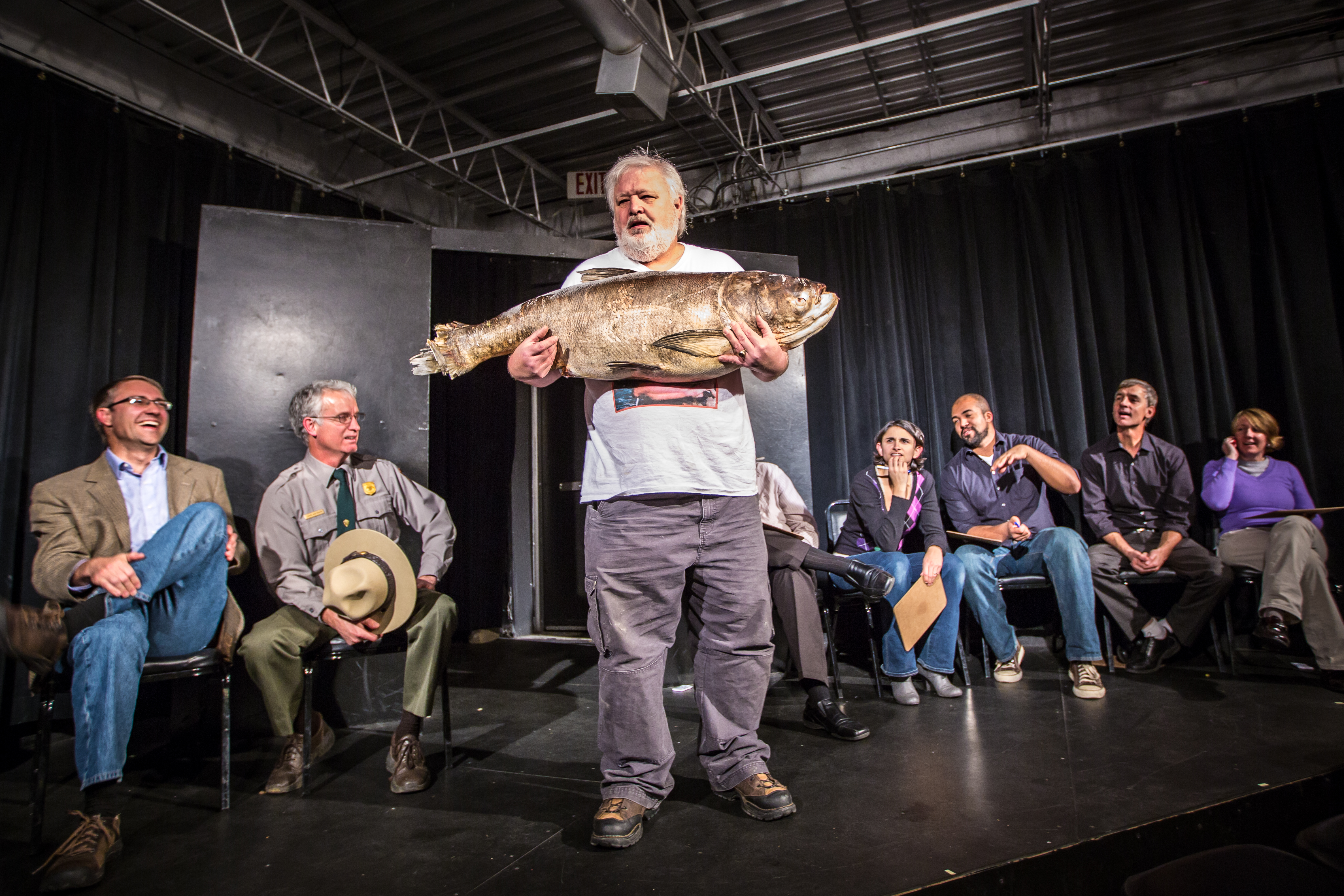 The Theater of Public Policy presents "Attack of the Asian Carp!" with special guests John Anfinson of the National Park Service and Darrell Gerber of Clean Water Action at HUGE Improv Theater in Minneapolis on October 25, 2012.